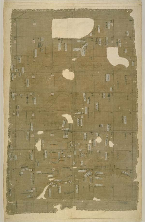 Nukata-dera garan narabini jōri-zu (額田寺伽籃並条里図（麻布）). Part of a map showing a Shōen or manor in the Nara period. The total depicted area is about 1,100m (NS) by 700m (EW). One of four linen cloths which together form a 2x2 map of 113.7 cm × 72.5 cm (44.8 in × 28.5 in). Located at the National Museum of Japanese History, Sakura, Chiba, Japan. The item has been designated as National Treasure of Japan in the category ancient documents.